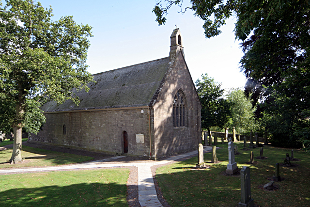 Fowlis Church, Angus, Scotland. Situated in the village of Fowlis, western side of grid square, north west aspect of the Church.